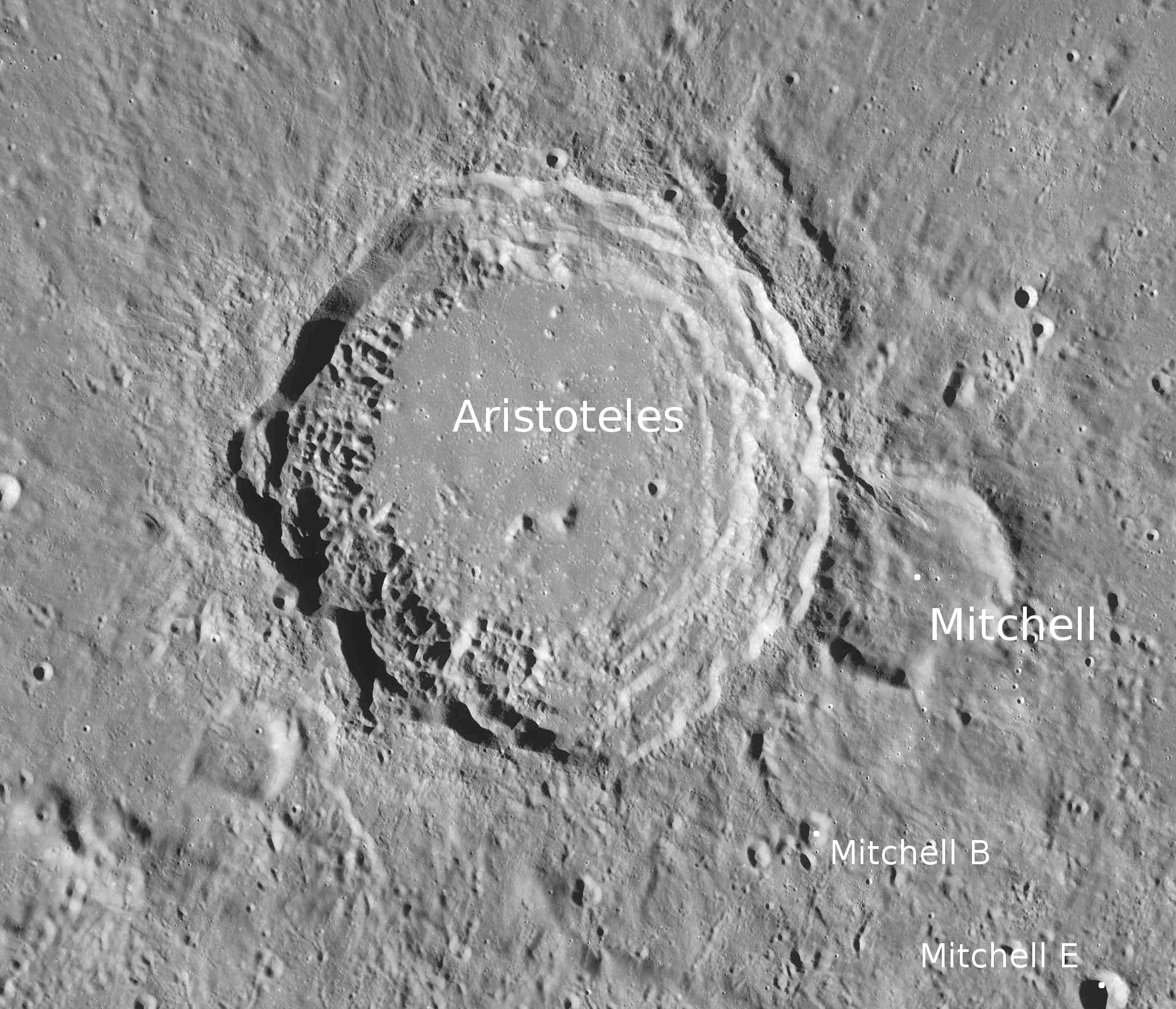 Craters Aristoteles and Mitchell (detail of LRO - WAC global moon mosaic; Mercator projection)